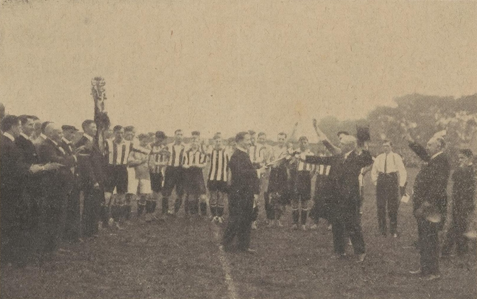 Mayors Hoorn Mr. Gerardus Johannes Bisschop at Hollandia sports club